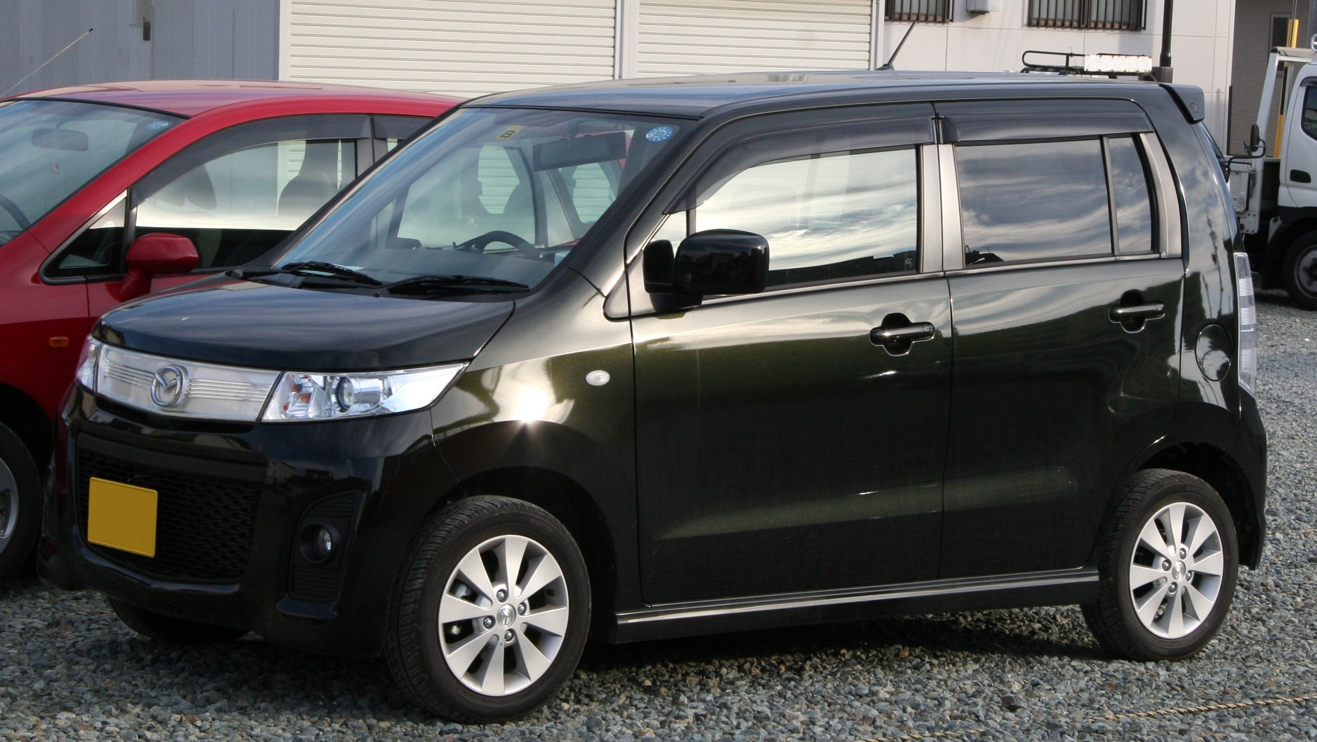 Mazda AZ-Wagon